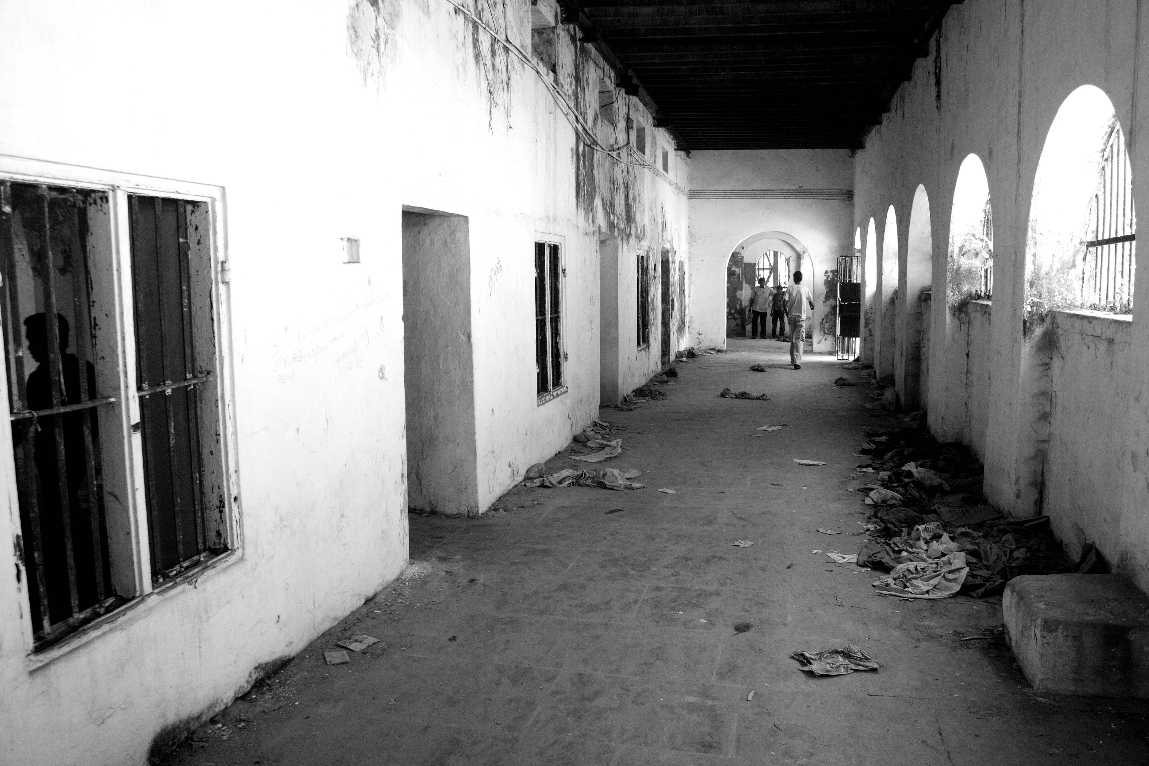 Taken inside the chennai central jail